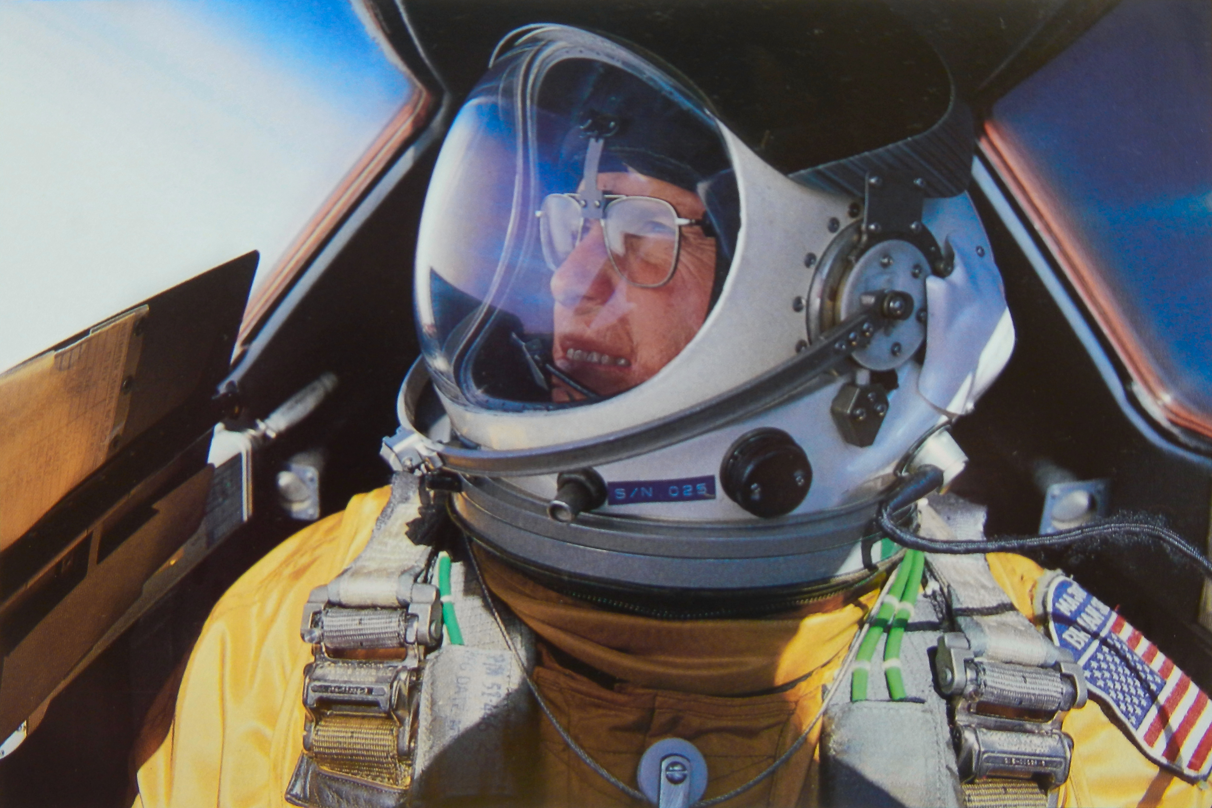 A self-portrait of Brian Shul in full flight suit gear within the cockpit of the SR-71 Blackbird.